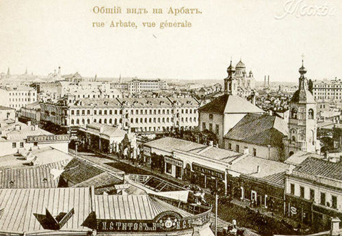 a historical image of the Arbat Street, Moscow